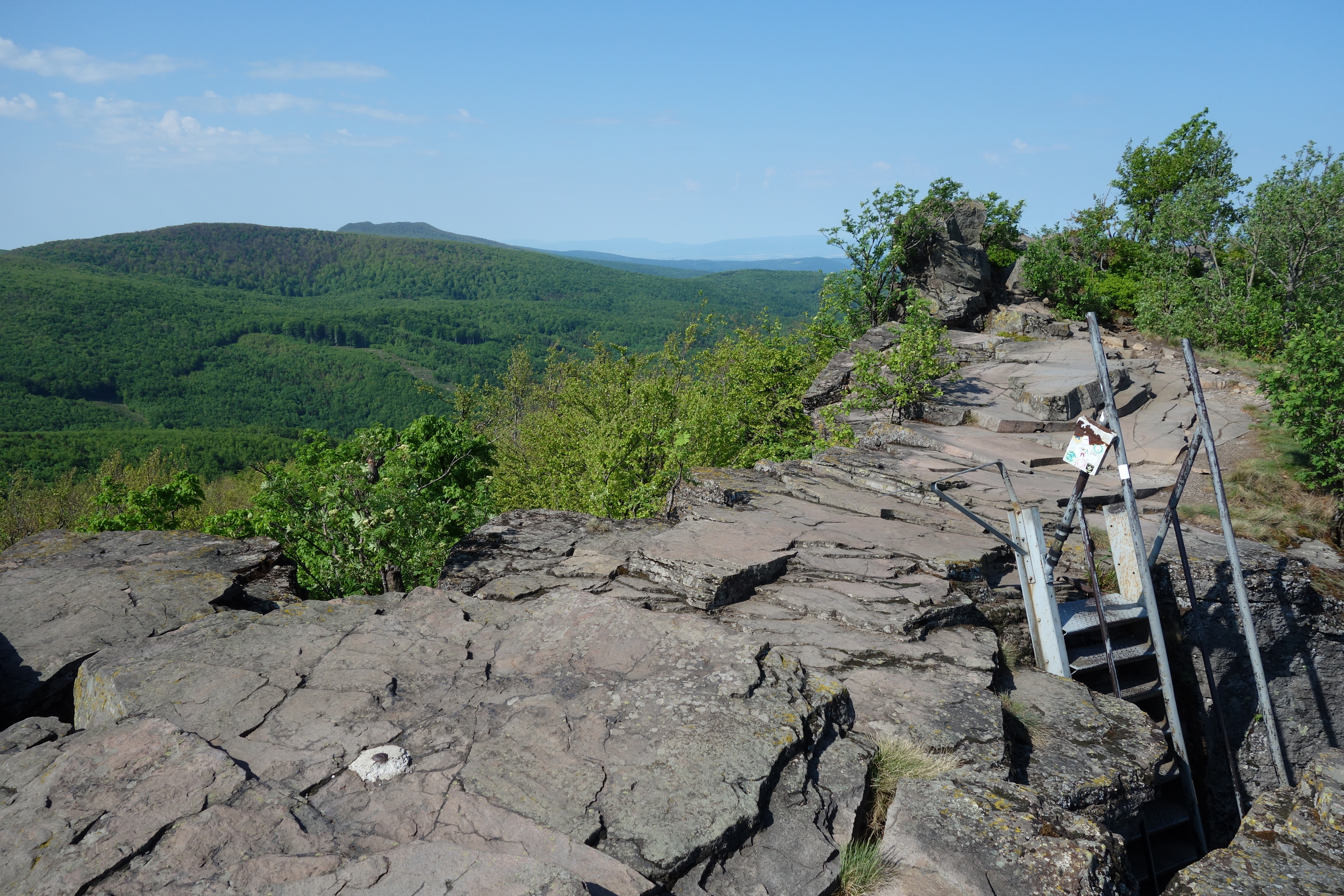 Sninský kameň in May This is a photography of Natura 2000 protected area with ID SKUEV0209